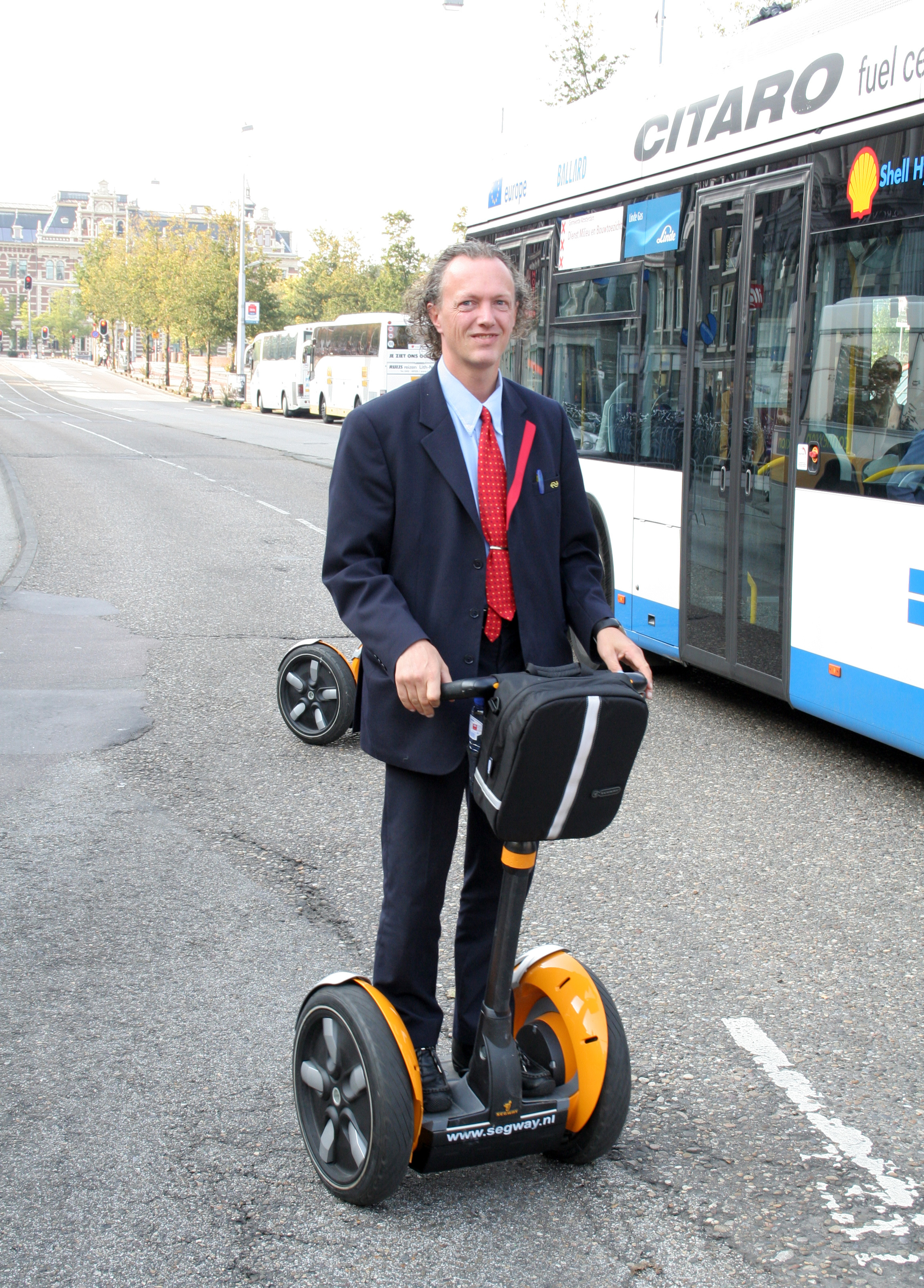 Segway in Amsterdam